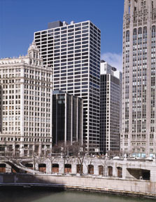 Building 444 N. Michigan ADHA